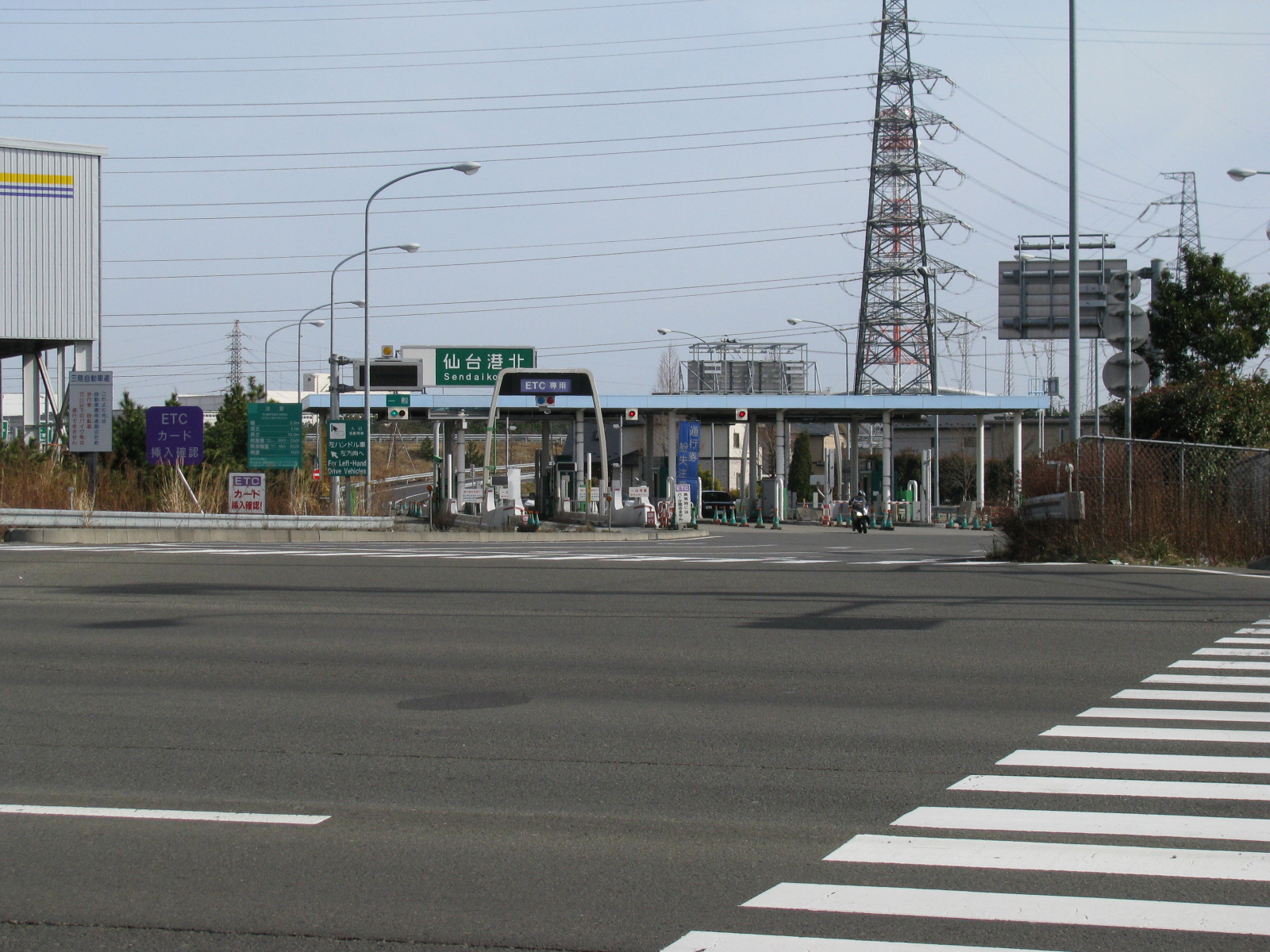 Sendaiko-kita Interchanges on the Sanriku Expressway